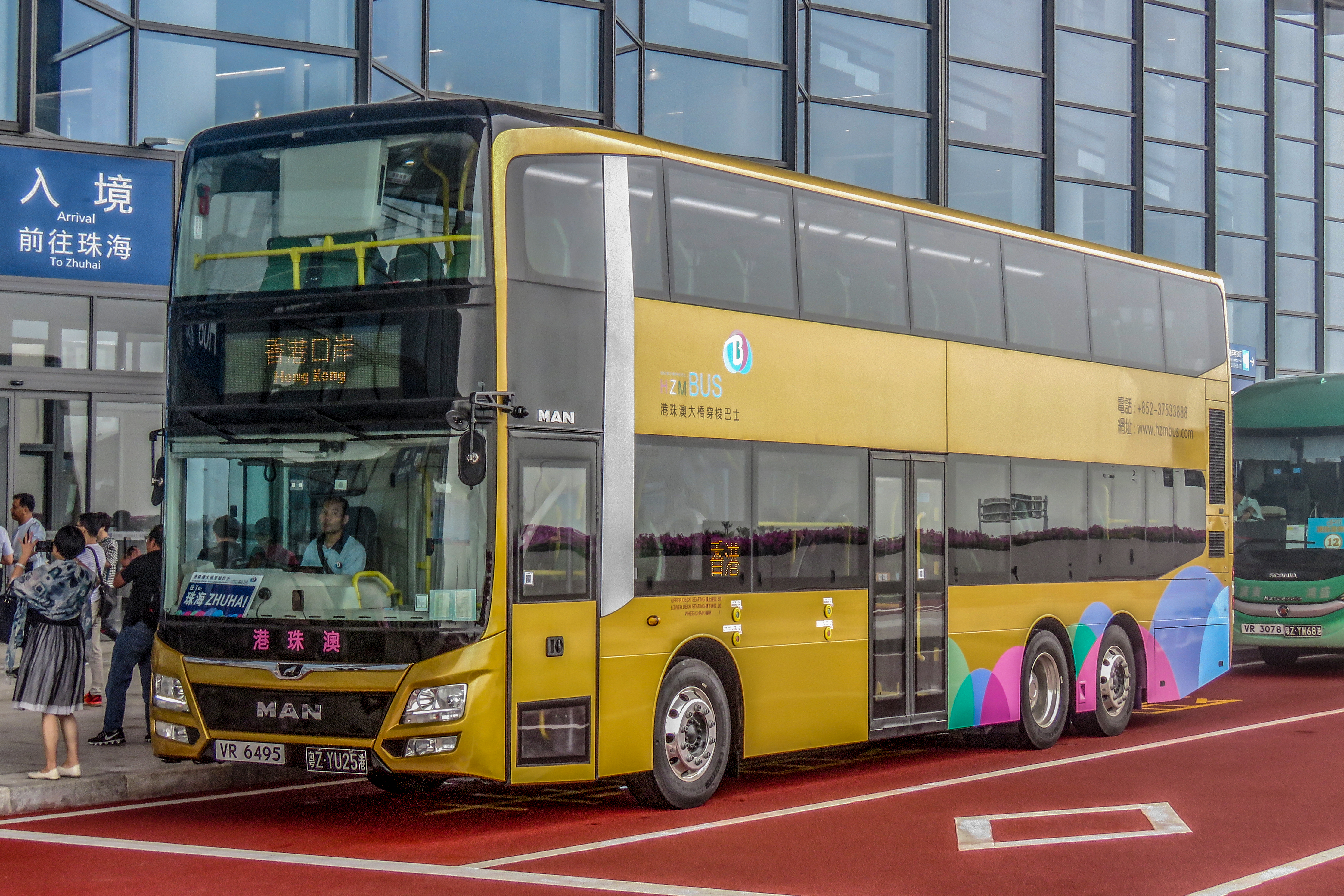 A small rain made a fog here, and some violent atmospheric corrections should be made...